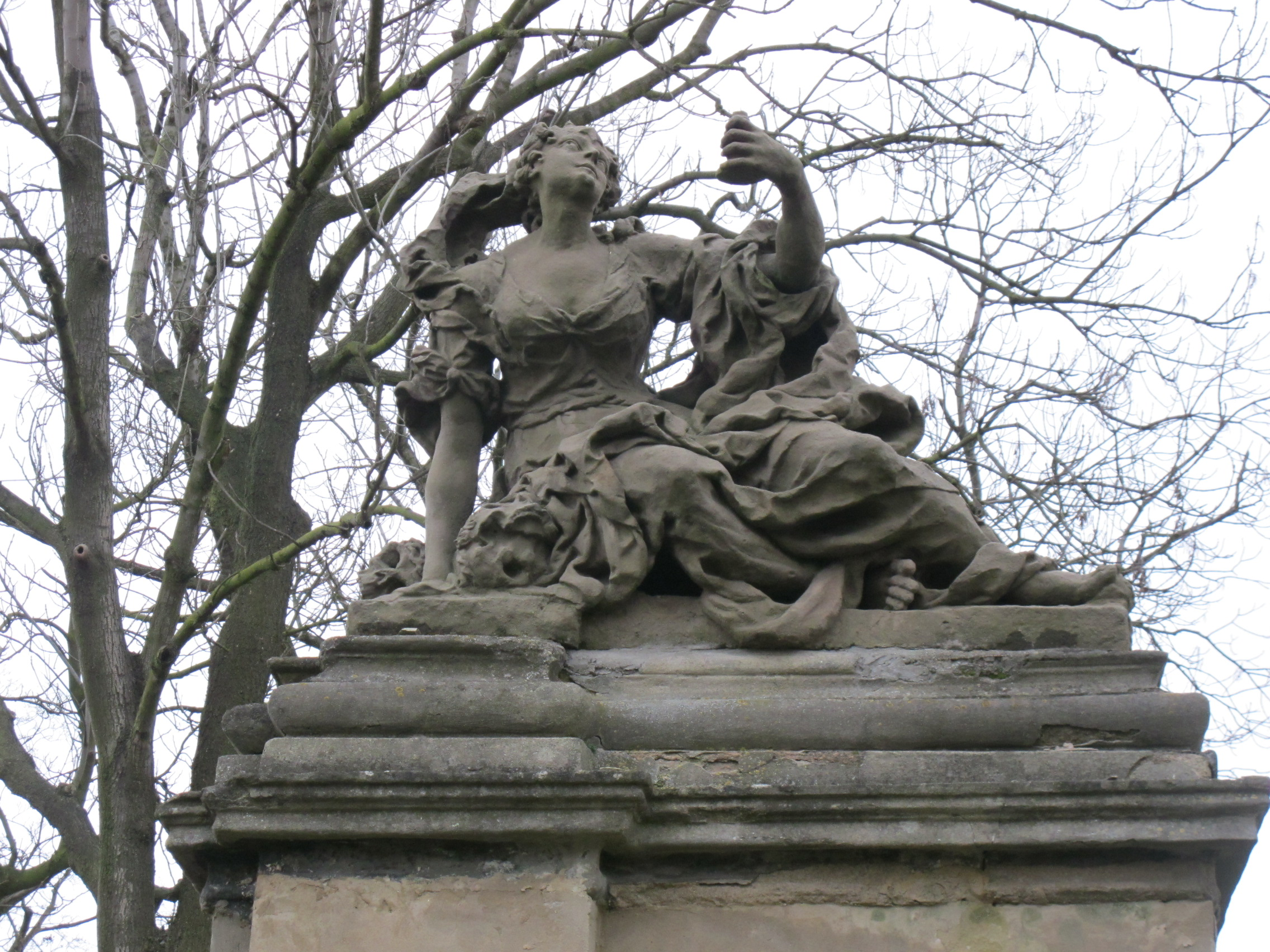 Allegory of Faith by M. B. Braun in Cítoliby (Czech Republic)